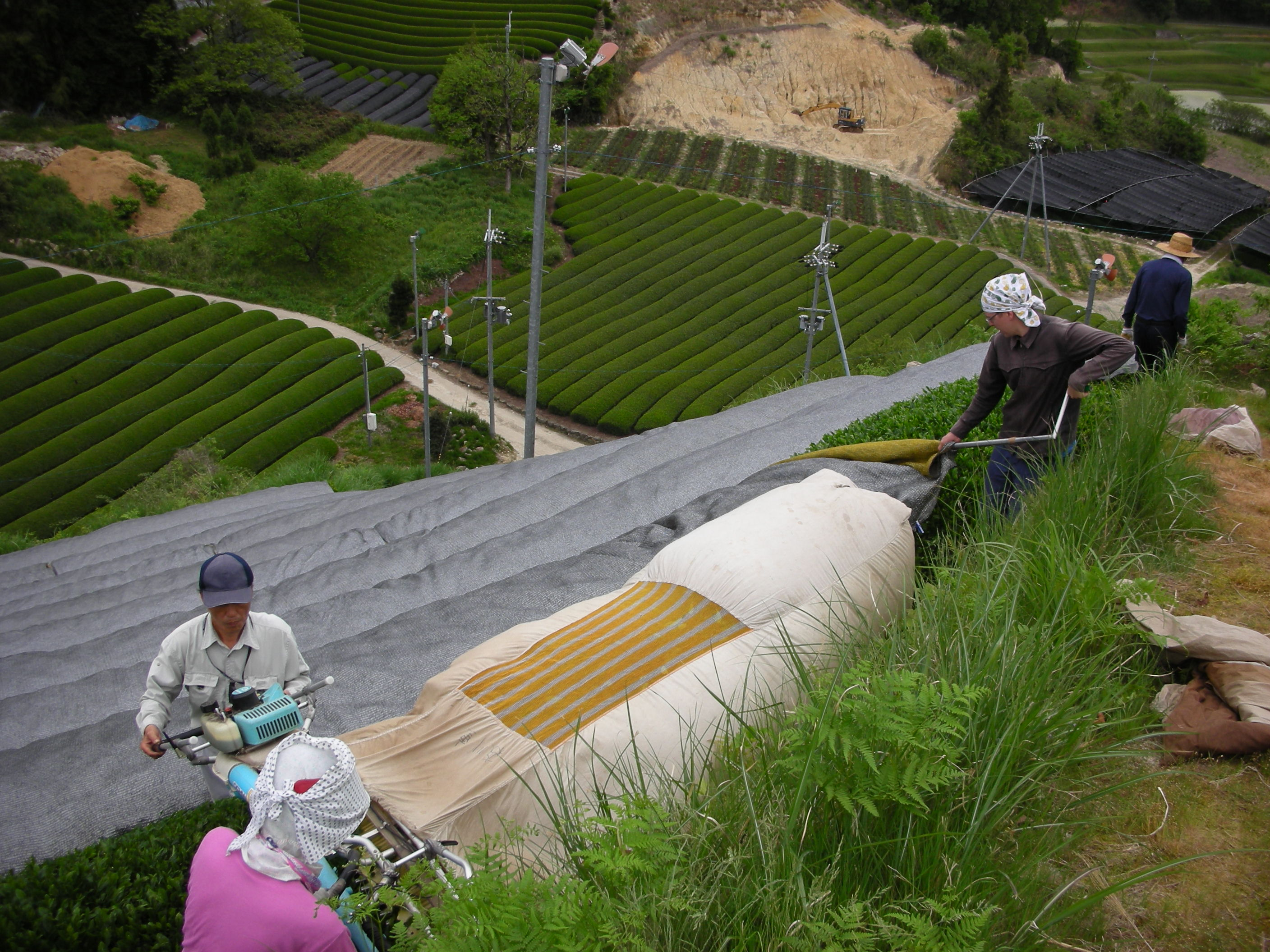 Removing the covering from tea plants for the harvest of kabuse tea leaves.